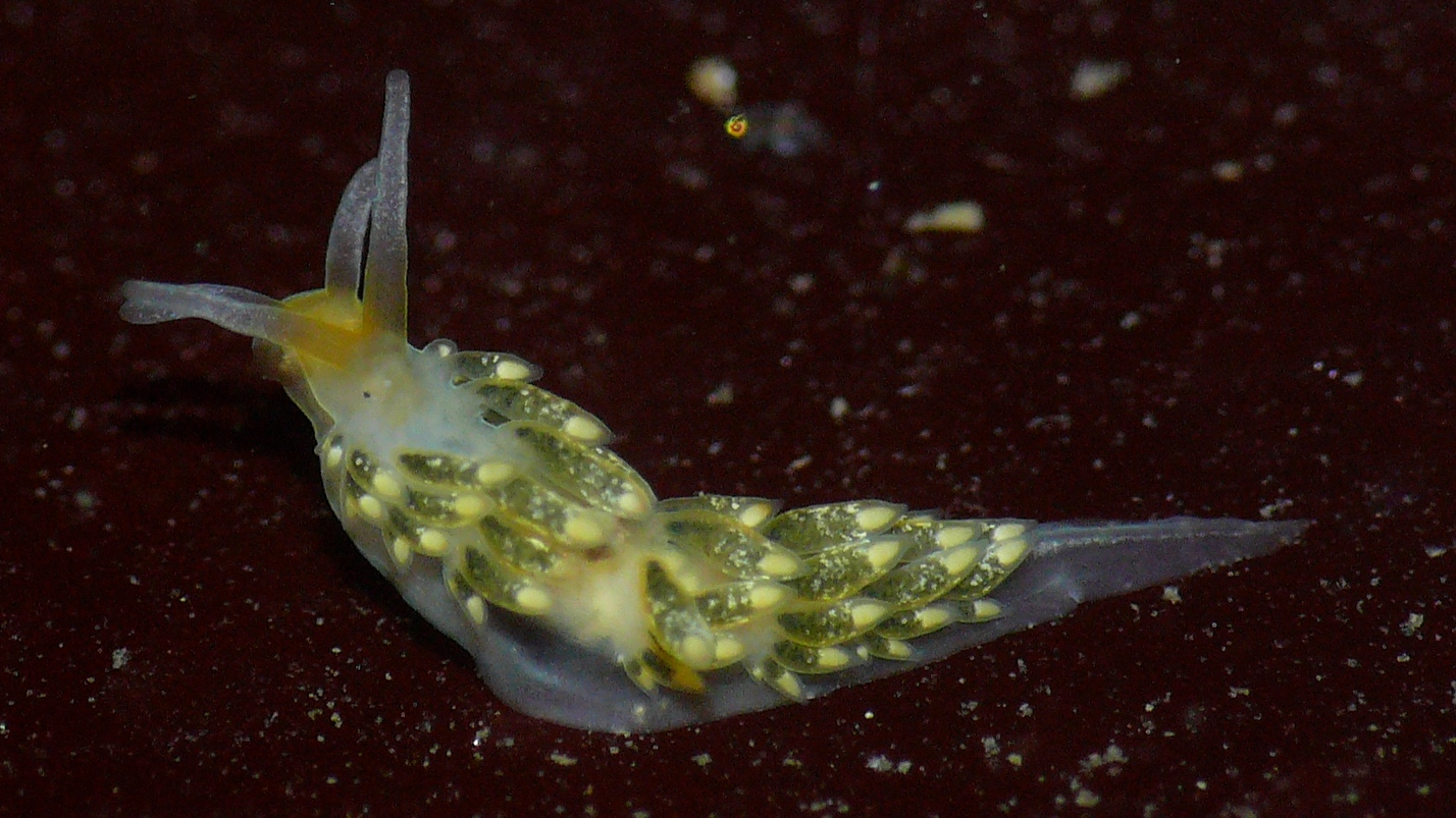 Cuthona flavovulta About 7mm long Pillar Point, Fitzgerald Marine Reserve, Moss Beach, CA